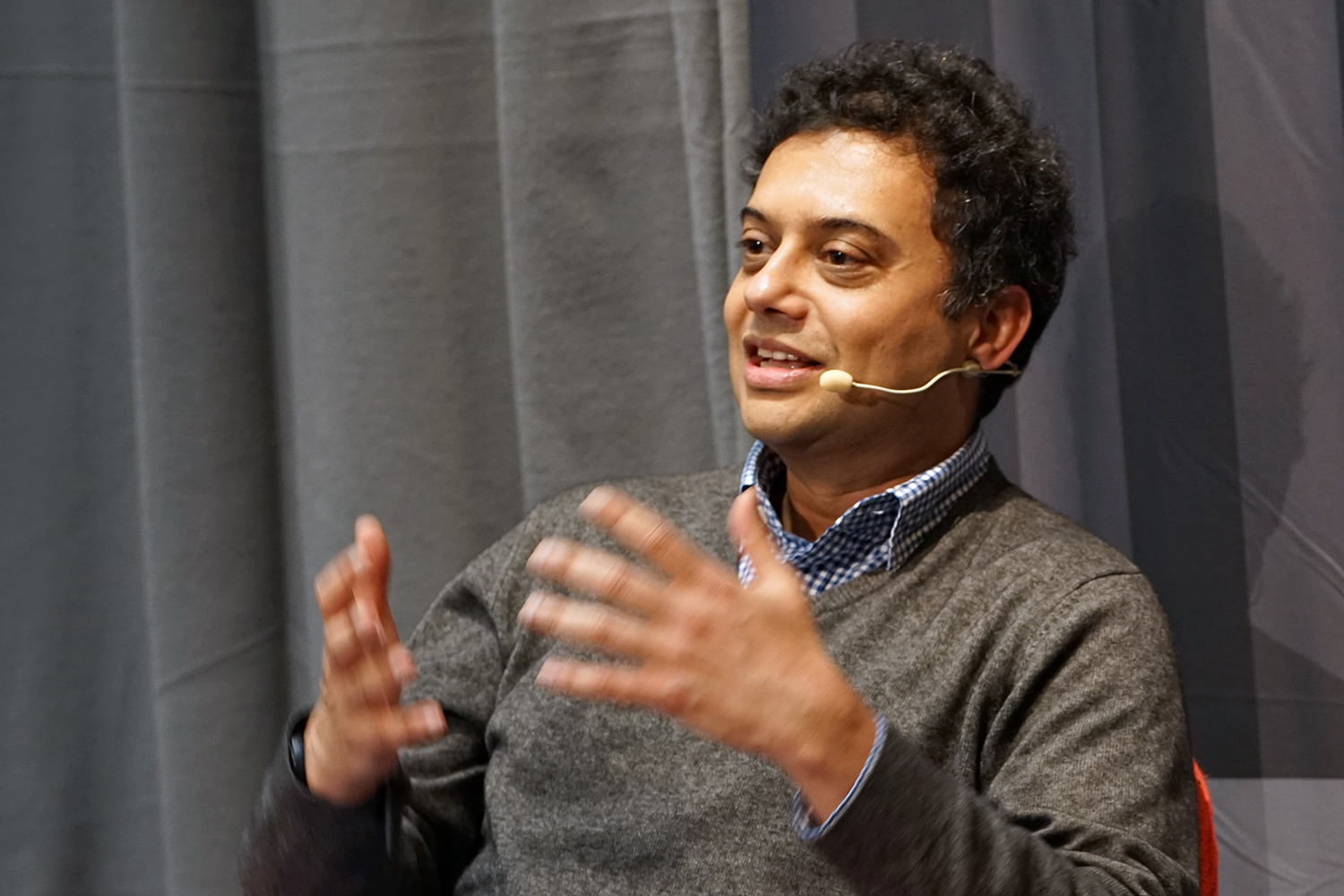 Neel Mukherjee - India-born fiction writer, living in London - at the Copenhagen Book Fair "BogForum 2018", Copenhagen, Denmark